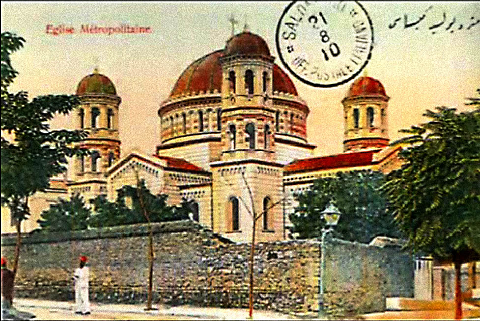 Saint Gregory Palama Church in Thessaloniki Ottoman Postcard